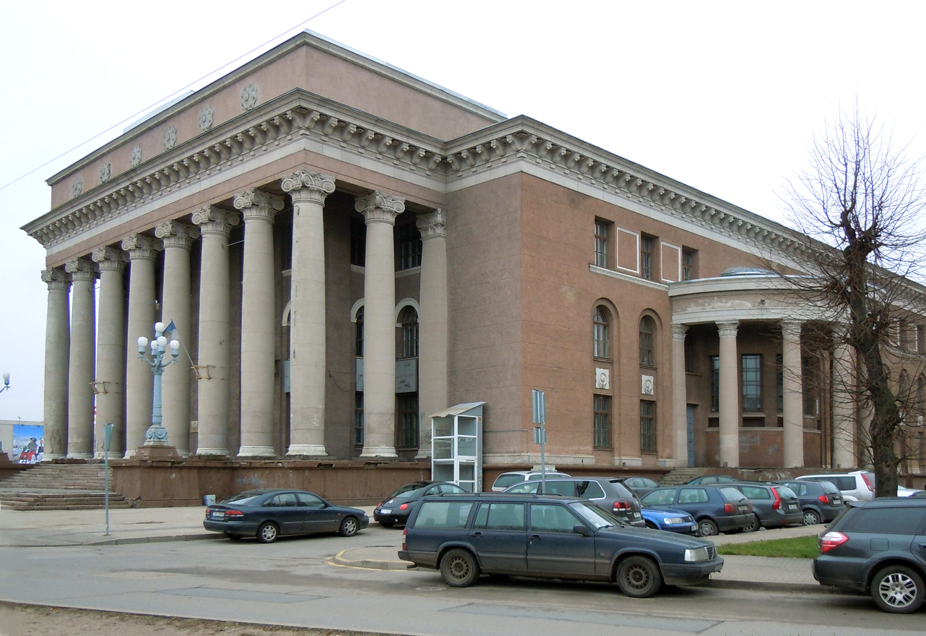 Palace_of_Culture_VEF_factory._Riga.